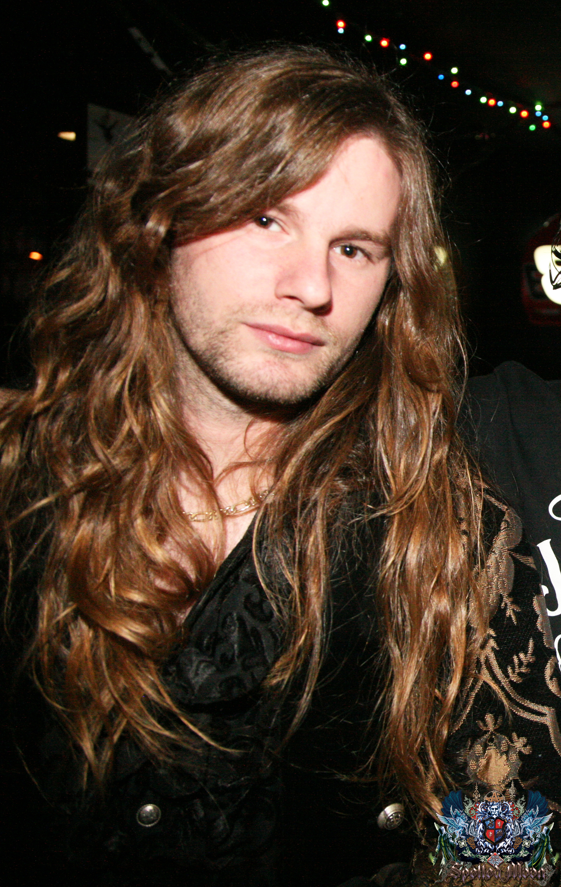 Andy Sarcone Rooney (Lead Singer Of Spelled Moon)